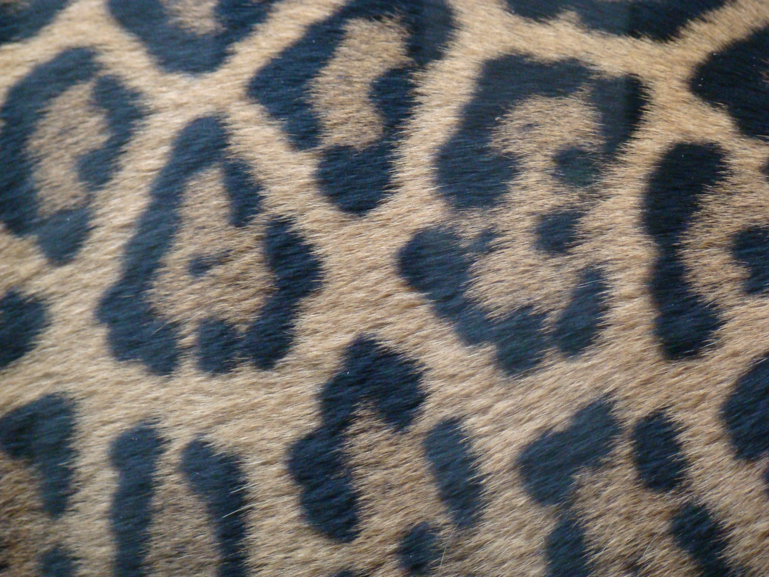 Pattern of Jaguar's coat